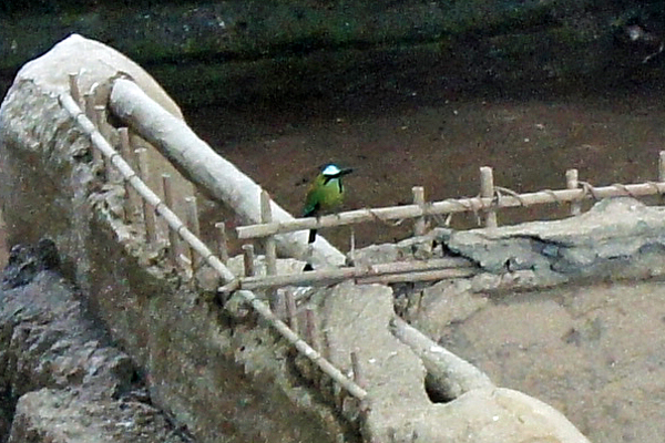 Torogoz - Turquoise-browed Motmot (Eumomota superciliosa) - on top of structure 4, area 3, Joya de Cerén archaeological site. The torogoz is El Salvador's national bird, but it is endangering the integrity of the ruins as the species like to dig out their nests in the fragile walls of the excavation site.